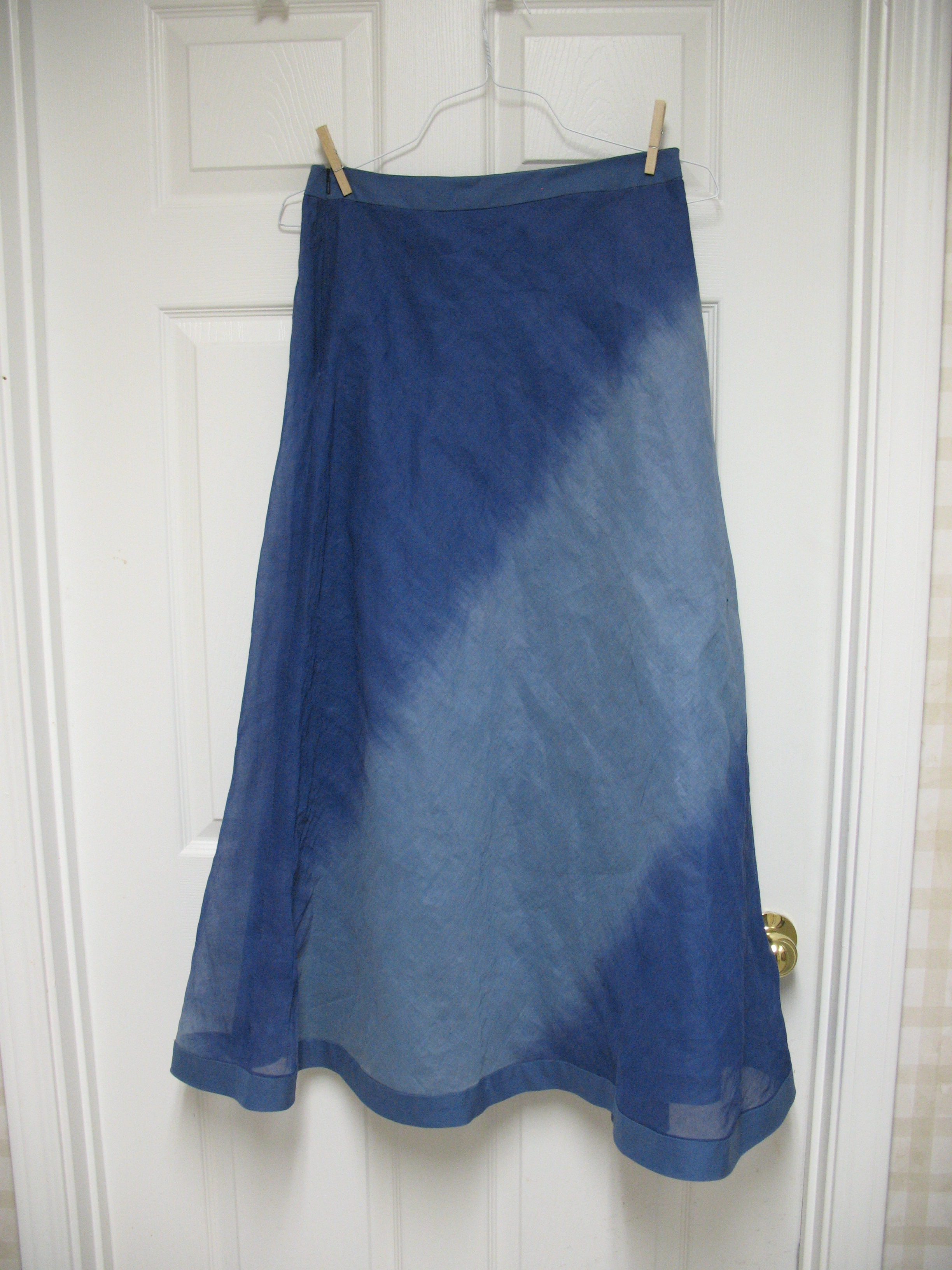 This is a copy of a skirt that I own and love. The overskirt is an organza remnant that I bought in the home decor section of the fabric store. No fiber content on the remnant, but I prewashed it in the washing machine and dried it in the dryer. That's part of why it is so textured. I hope it looks interesting instead of slovenly. There's an attached cotton underskirt as well.